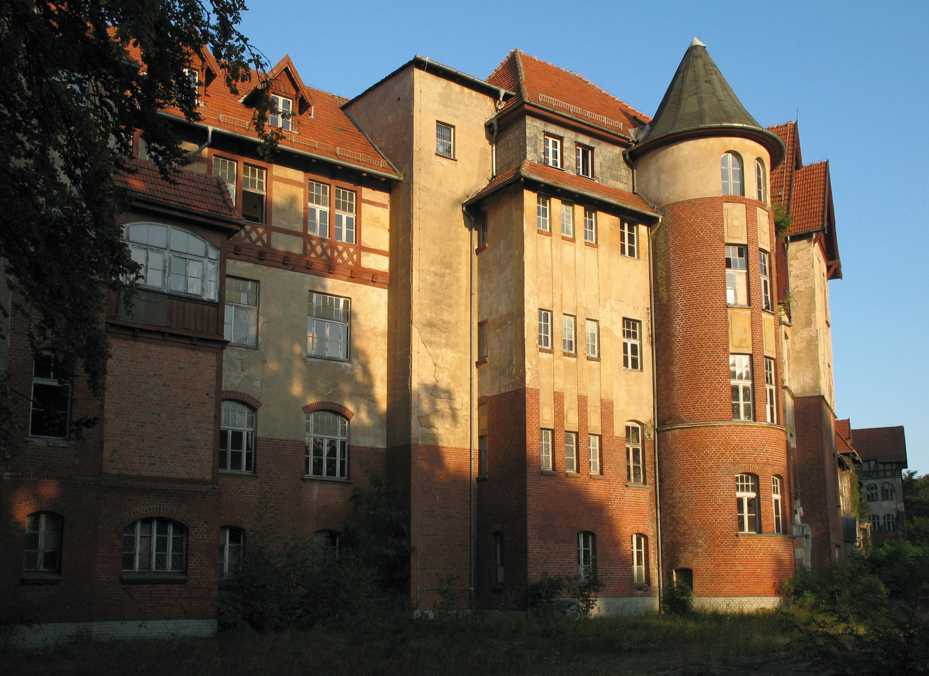 Former sanatorium in Lychen in Brandenburg, Germany